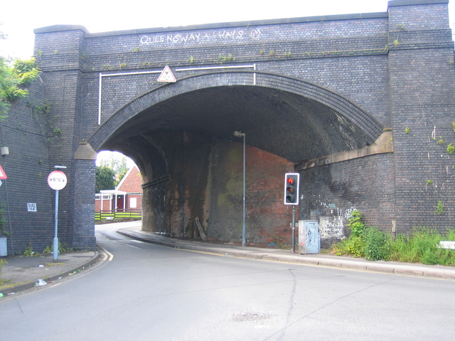 Bridge at Mill Lane and Station Road, Northfield. When the original bridge under the Birmingham and Bristol railway was built this would have been a rural area and so it only had sufficient width to carry a single line of traffic. By the time the line was widened to four tracks clearly there was seen to be a need to widen the road and so the newer part of the bridge, in blue brick, was constructed accordingly. The arch of older part of the bridge however has never been rebuilt hence this unusual looking structure with traffic controlled by lights.